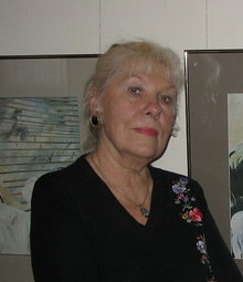 Nijolė 2008 m.